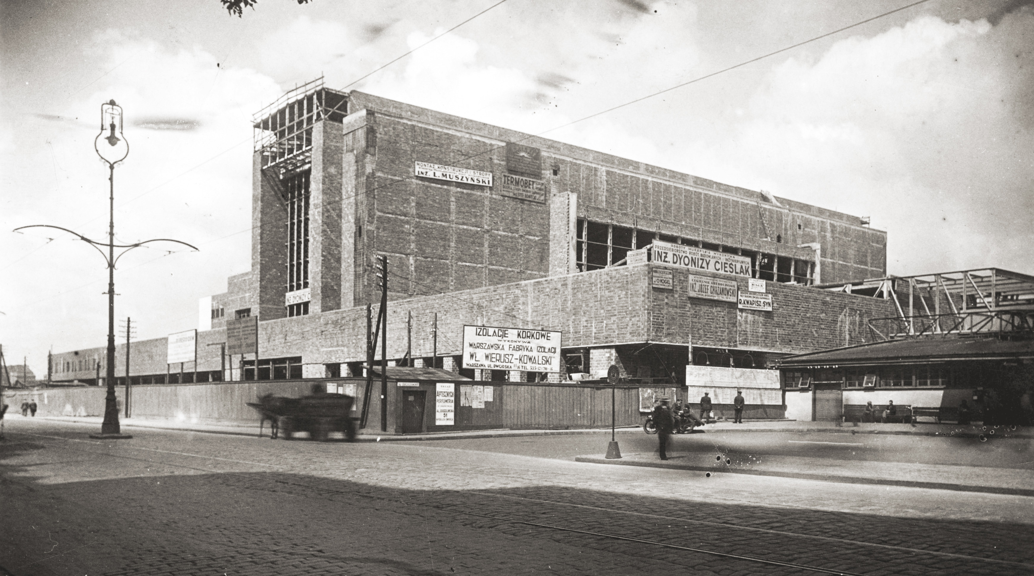 Construction of the Central Railway Station in Warsaw, view from the direction of Jerozolimskie Avenue. Picture taken before the building was completed, in late 1938. Original English caption: Construction of the new Central Railway Station in Warsaw.